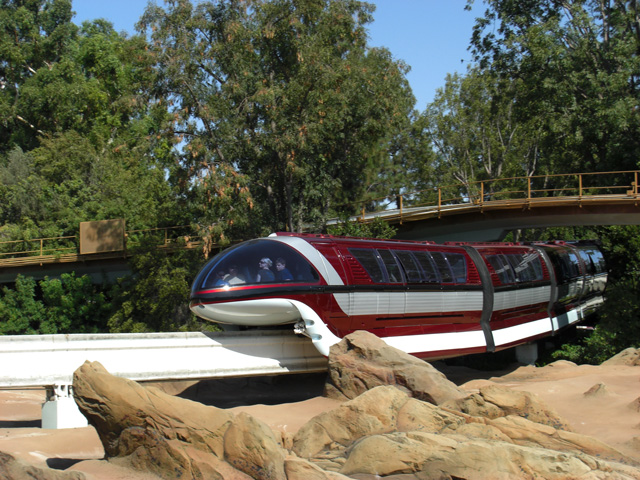 Disneyland Mark VII Monorail Red passing over the Finding Nemo Submarine Voyage show building